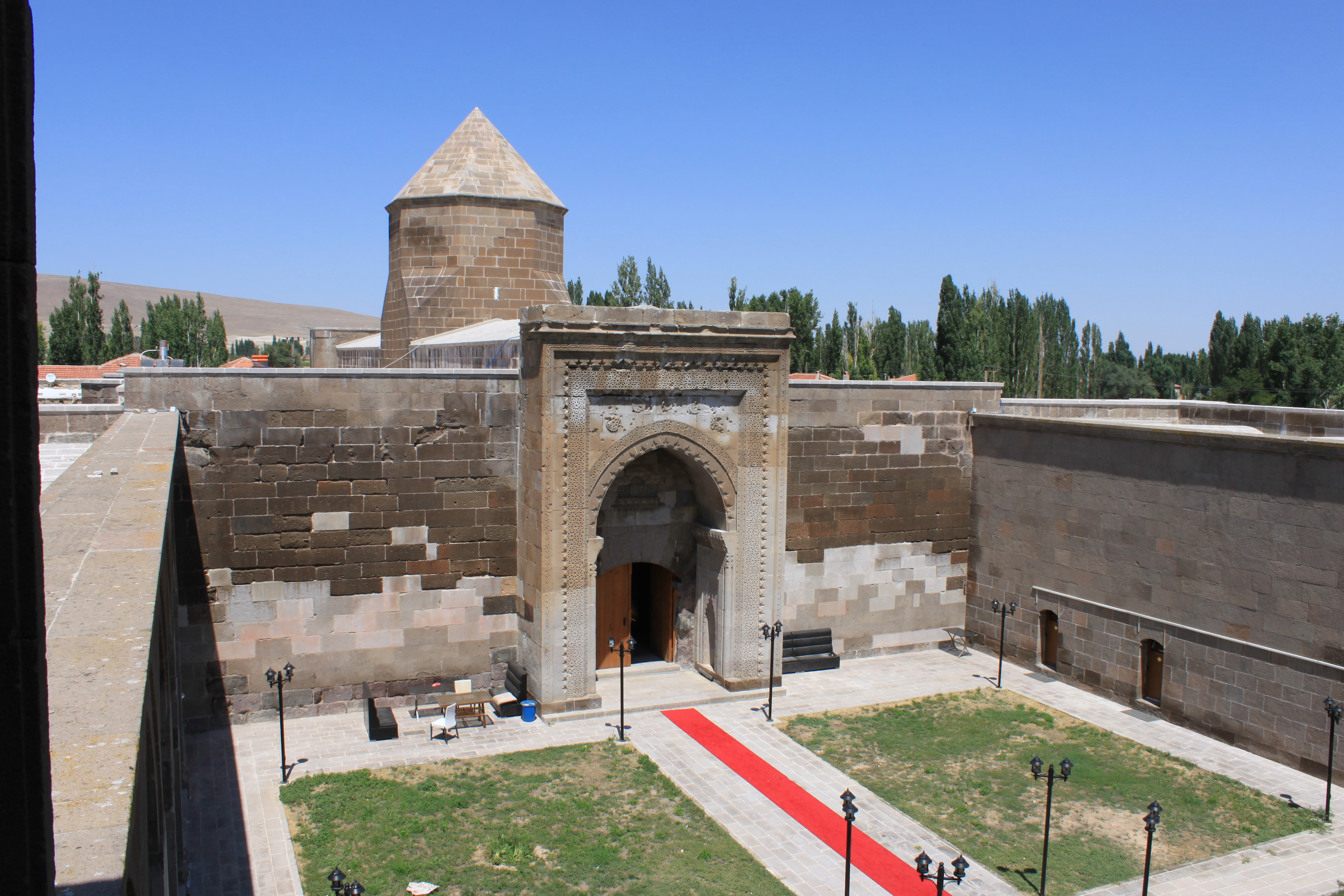 Karatay Han, view from the roof to the courtyard.